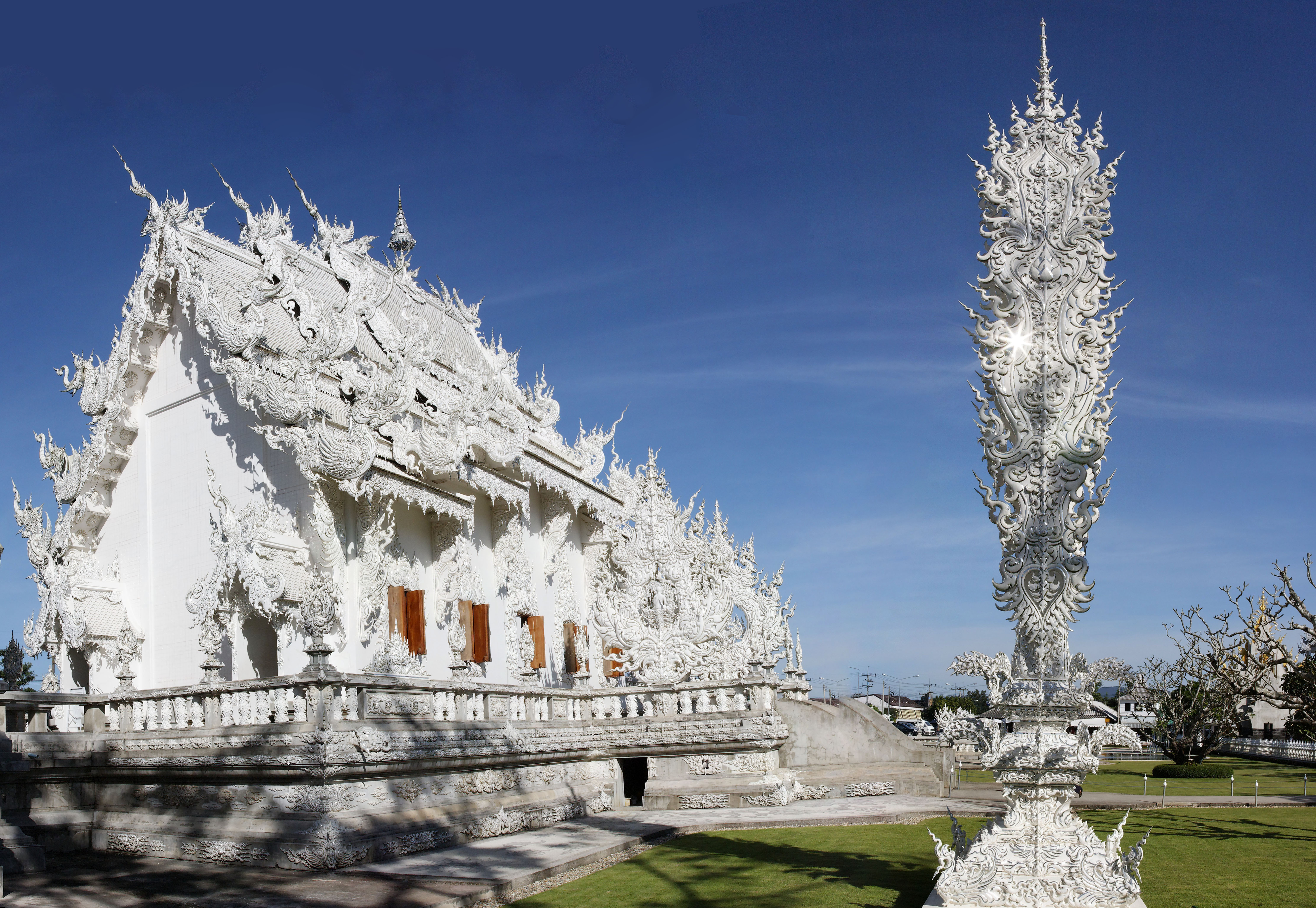 Wat Rong Khun, Chiang Rai, Thailand